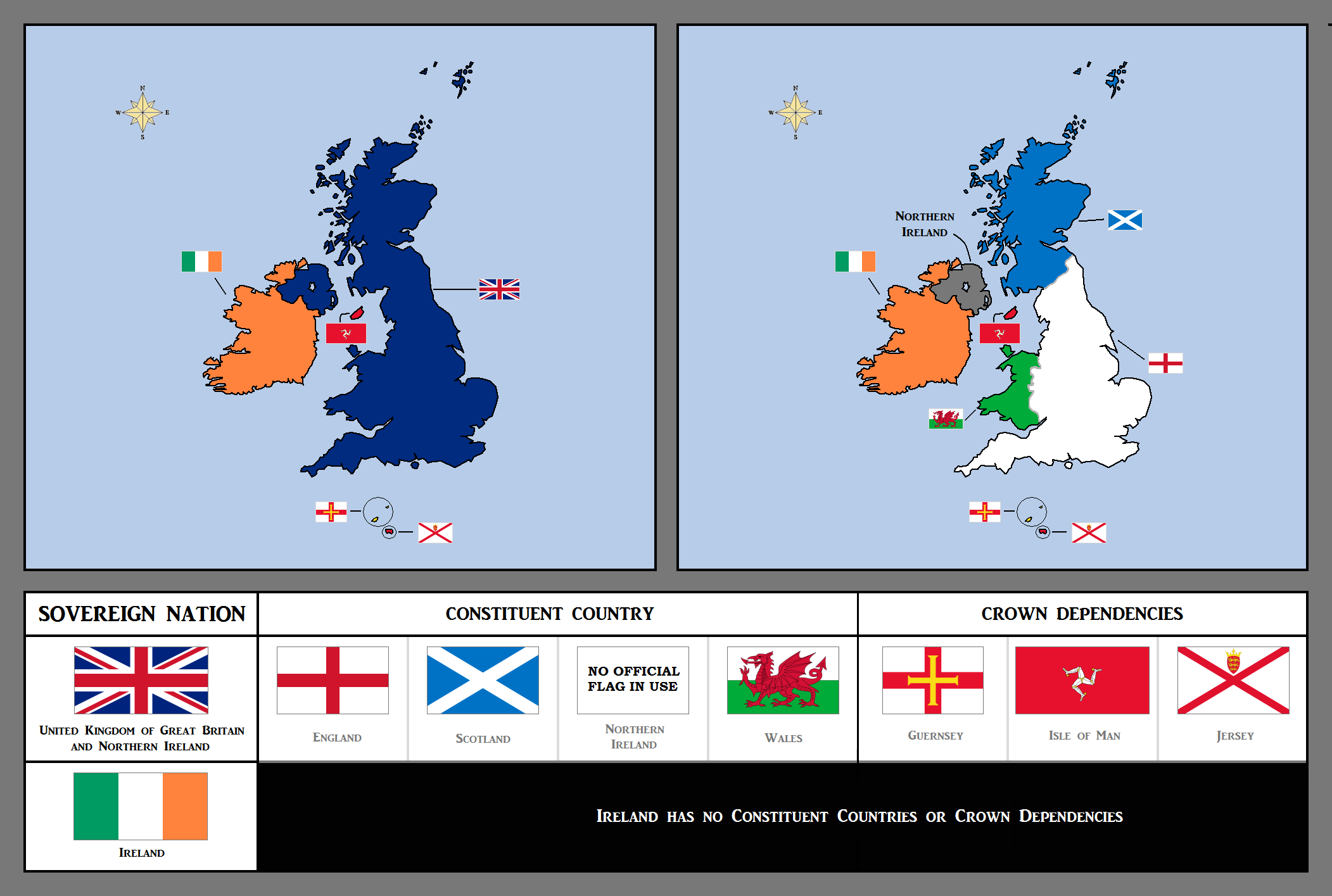 Flag map of the UK (+ constituent countries) and the Republic of Ireland.